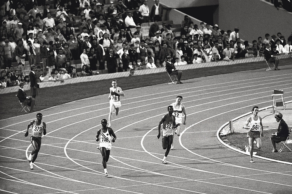 In the last curve of the semi final Olympic race of men's 400 metres, the Senegalese Amadou Gakou, in the third lane with number 708, goes in victory over the US Ron Freeman (eighth lane and outside the photo) and the Polish Andrzej Badeński (first lane, number 661). Mexico City (Mexico), October 17, 1968